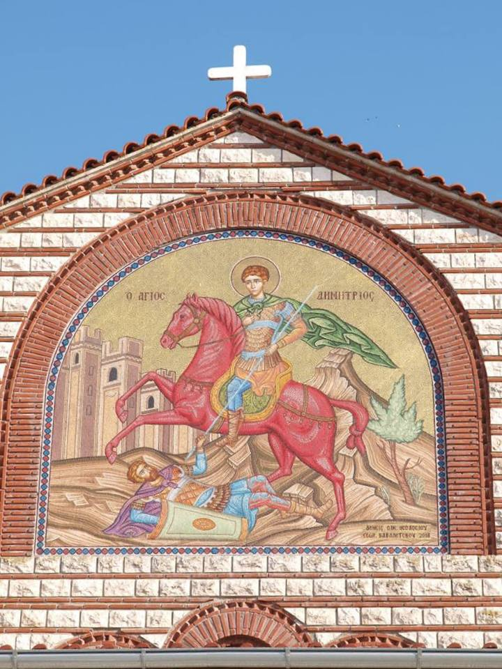 Saint Demetrius Church in Neos Skopos, Mosaec above the Entrance